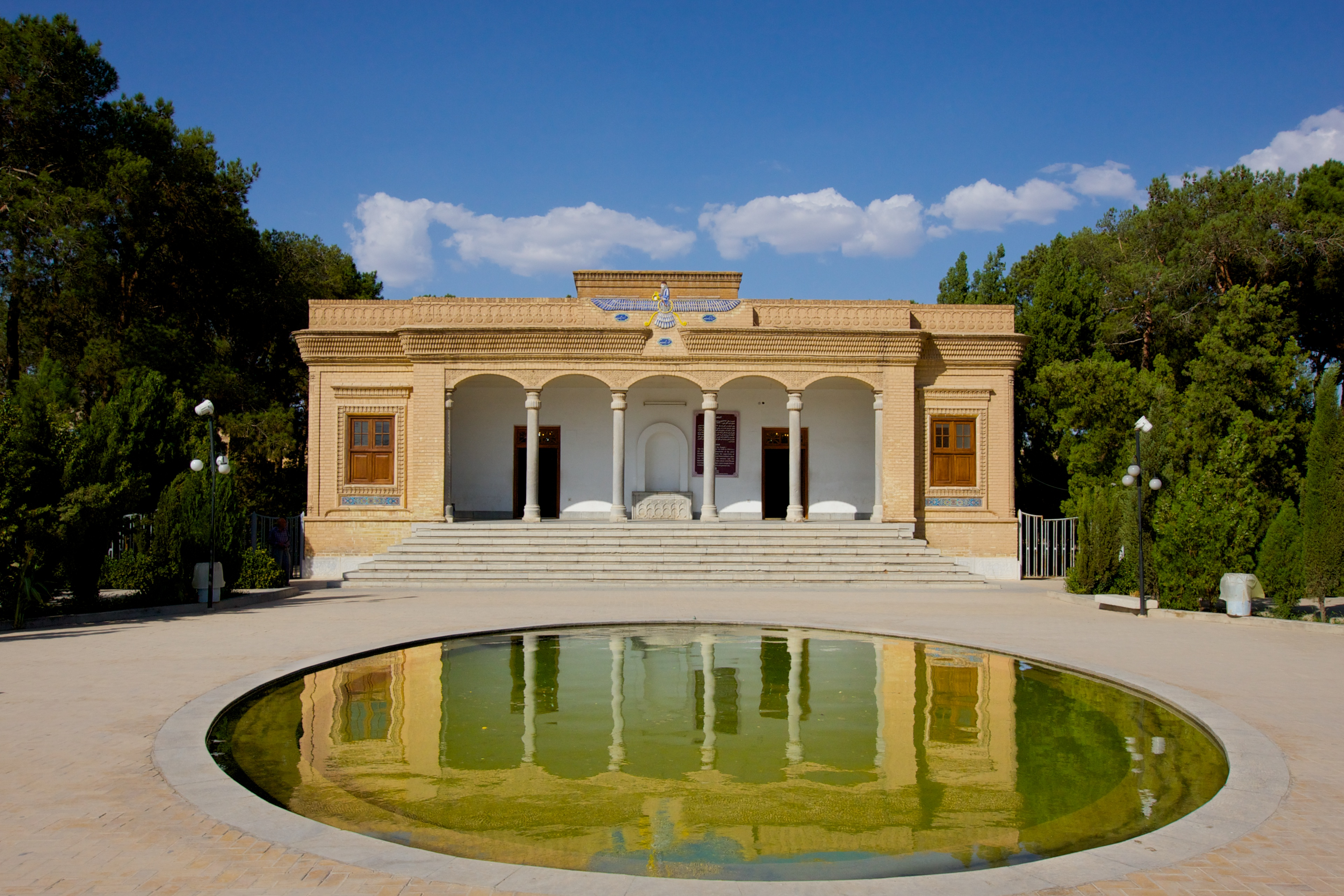 the Zarathustra fire temple in Yazd, Iran